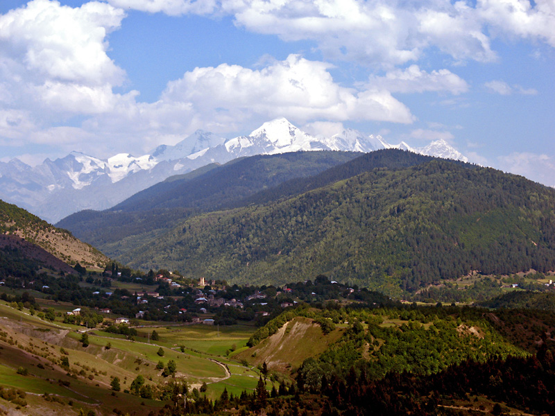 Zemo Svaneti (Upper Svaneti) is the historical Georgian province in North-West Georgia. In the center of background mountain Tetnuldi, which is a prominent peak in the central part of the Greater Caucasus Mountain Range, located in the Svaneti region of Georgia. According to most sources, Tetnuld is the 10th highest peak of the Caucasus (4858 m. A.D).